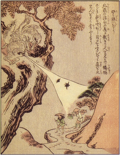 Noteppō (野鉄砲) from the Ehon Hyaku monogatari (絵本百物語)